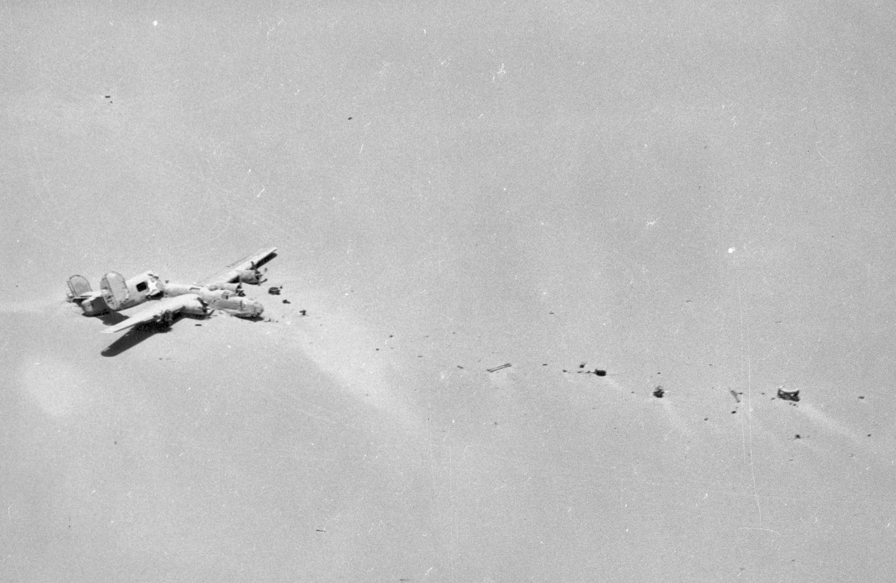 The Consolidated B-24D Lady Be Good as it appeared when discovered from the air in the Libyan desert.